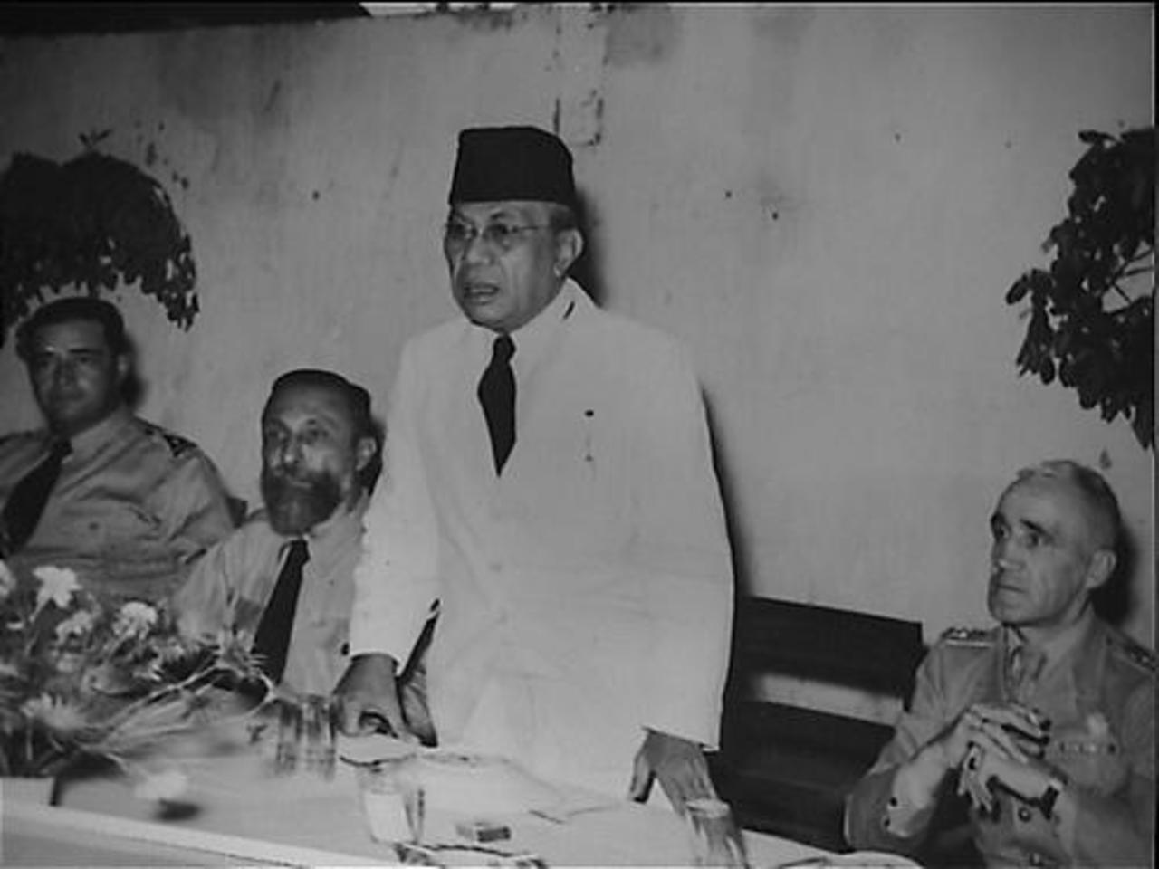 Madoera. On June 15, the 1st Inf. In Bangkalan on the island of Madoera. Security Battalion officially installed in the presence of many military authorities. The Wali Negara of Madoera, the Lord R.A.A. Tjakra Ningrat during his speech. On the right the General-Major of the Gen. Staff. W.J.K. Baay, Territorial Commander of East Java. To the left of the speaker the Recomba of East Java, the Lord Ch.O. v.d. Plas and the Commander of the new battalion